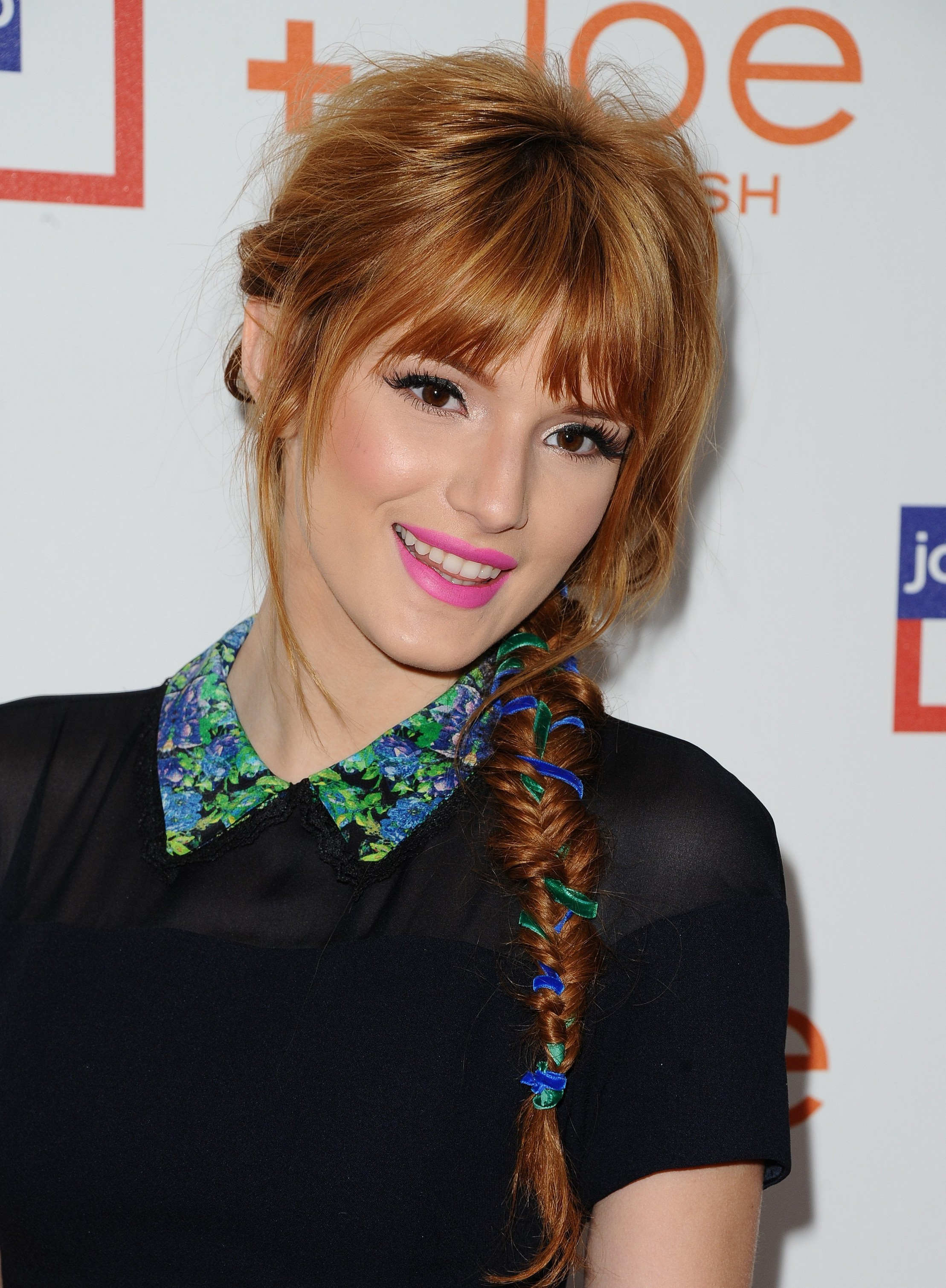 On the 7th of March, Bella attended the JCPenney “Joe Fresh” Launch Party with her sister Kaili.